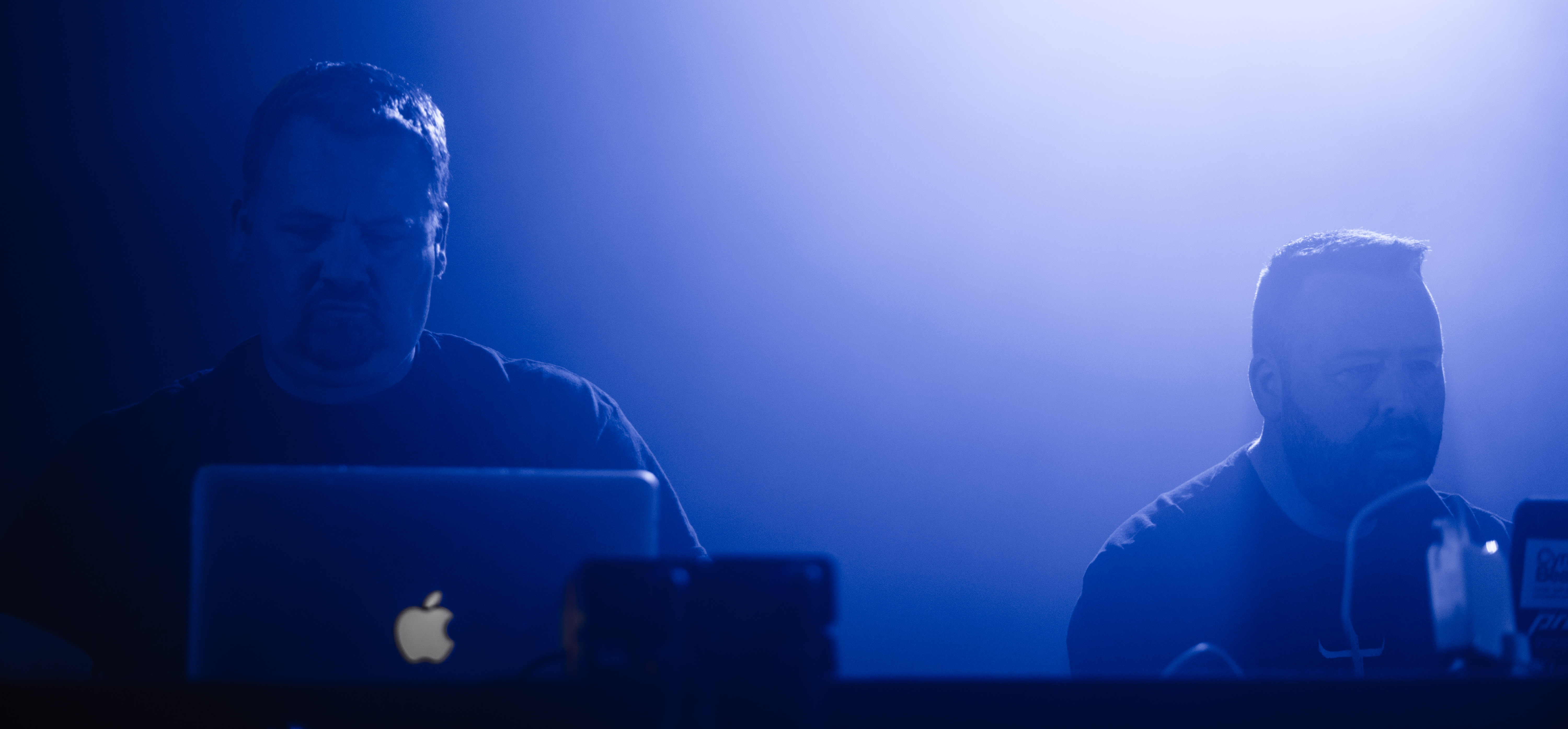 WGT 2016